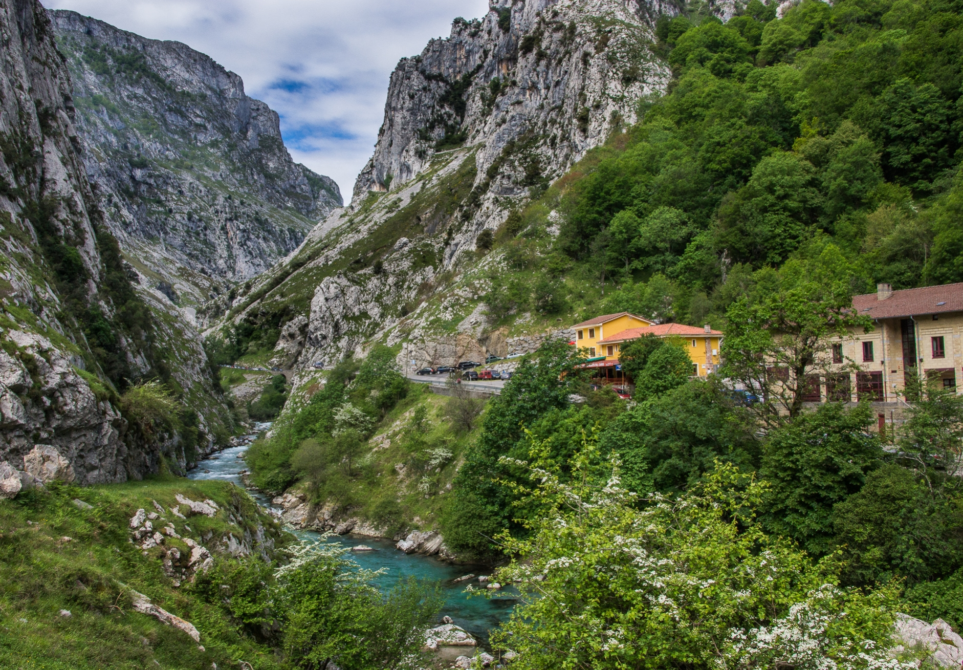 Picture along the Ruta del Cares